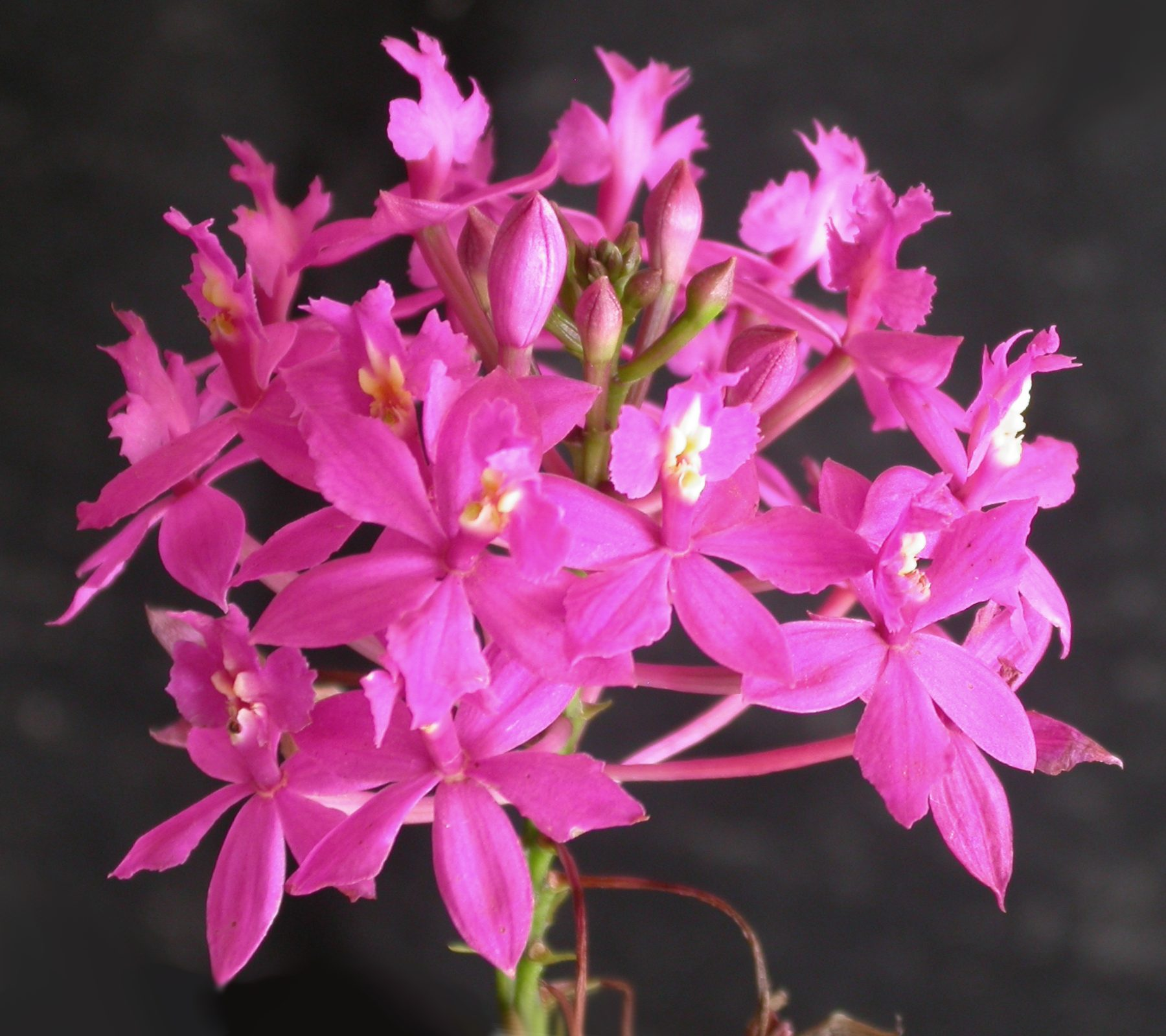 Epidendrum denticulatum